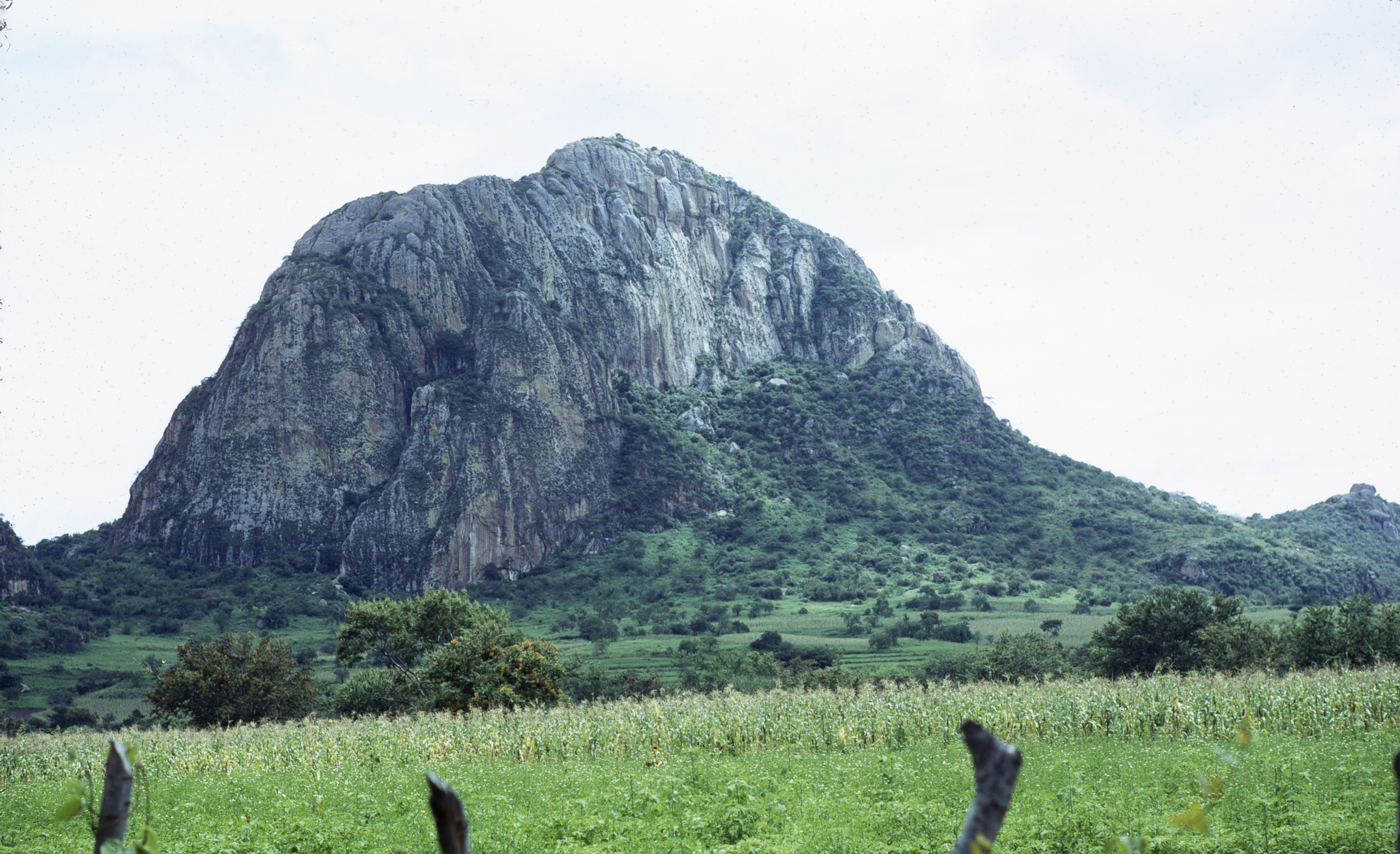 Chalcatzingo, Morelos, Mexico: Cerro